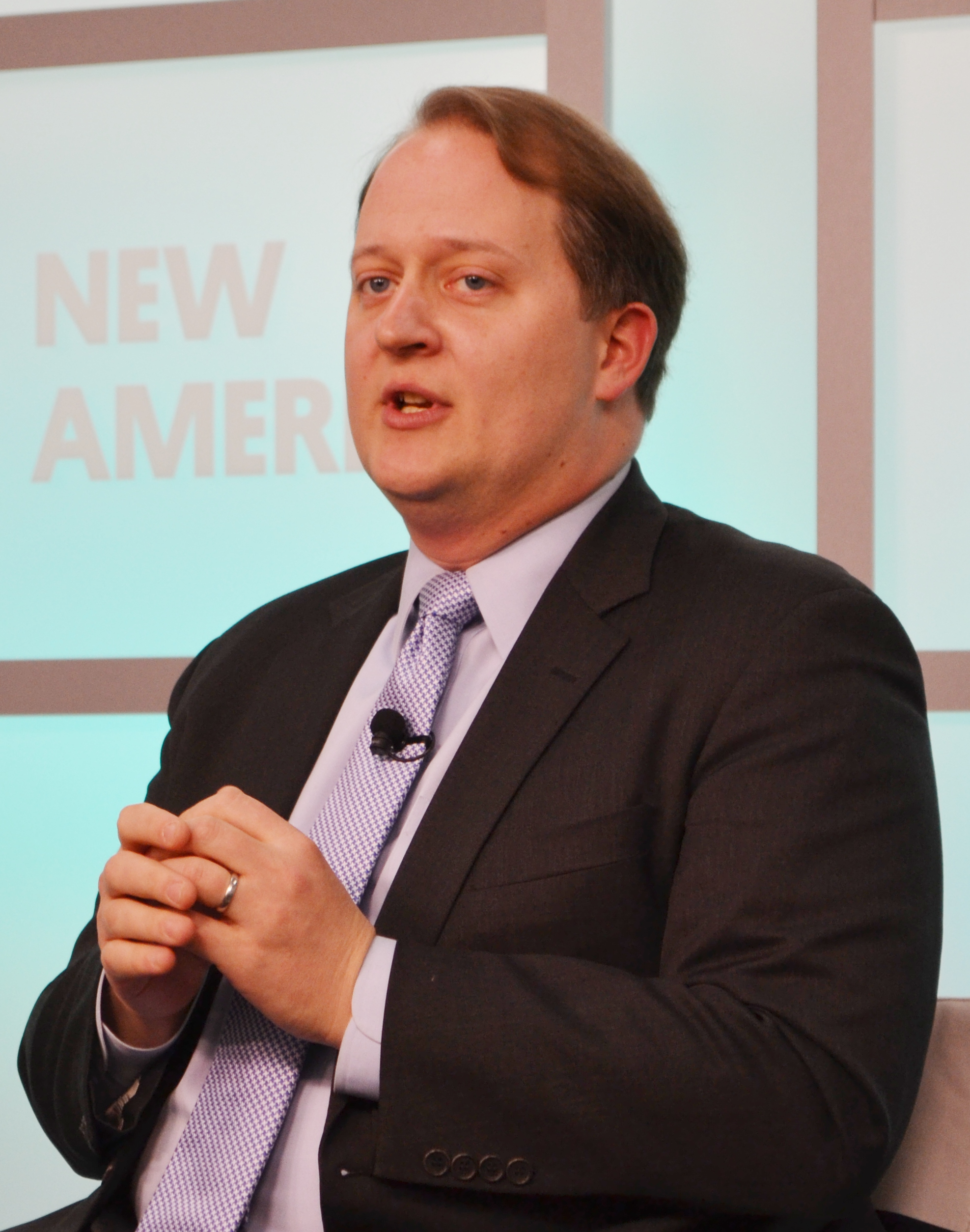 Journalist Shane Harris